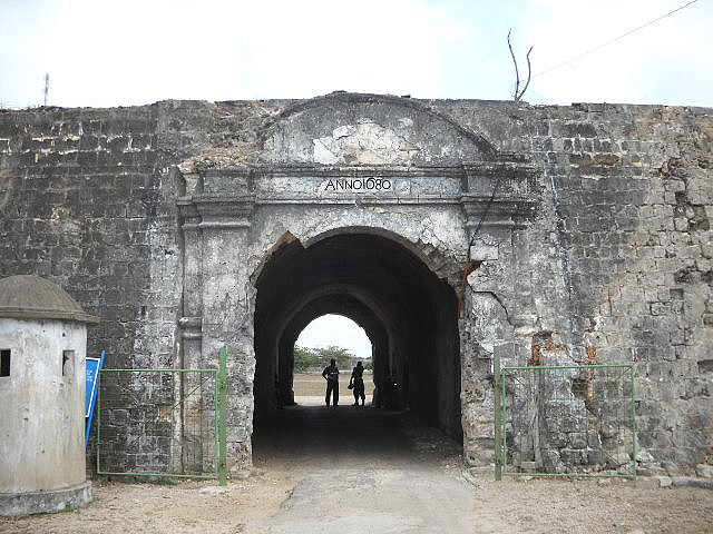 Entrance of Jaffna fort, jaffna, Sri Lanka.